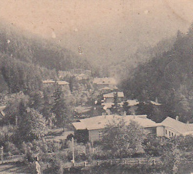 Abastumani, Romanov Winter Palace, postcard c. 1891